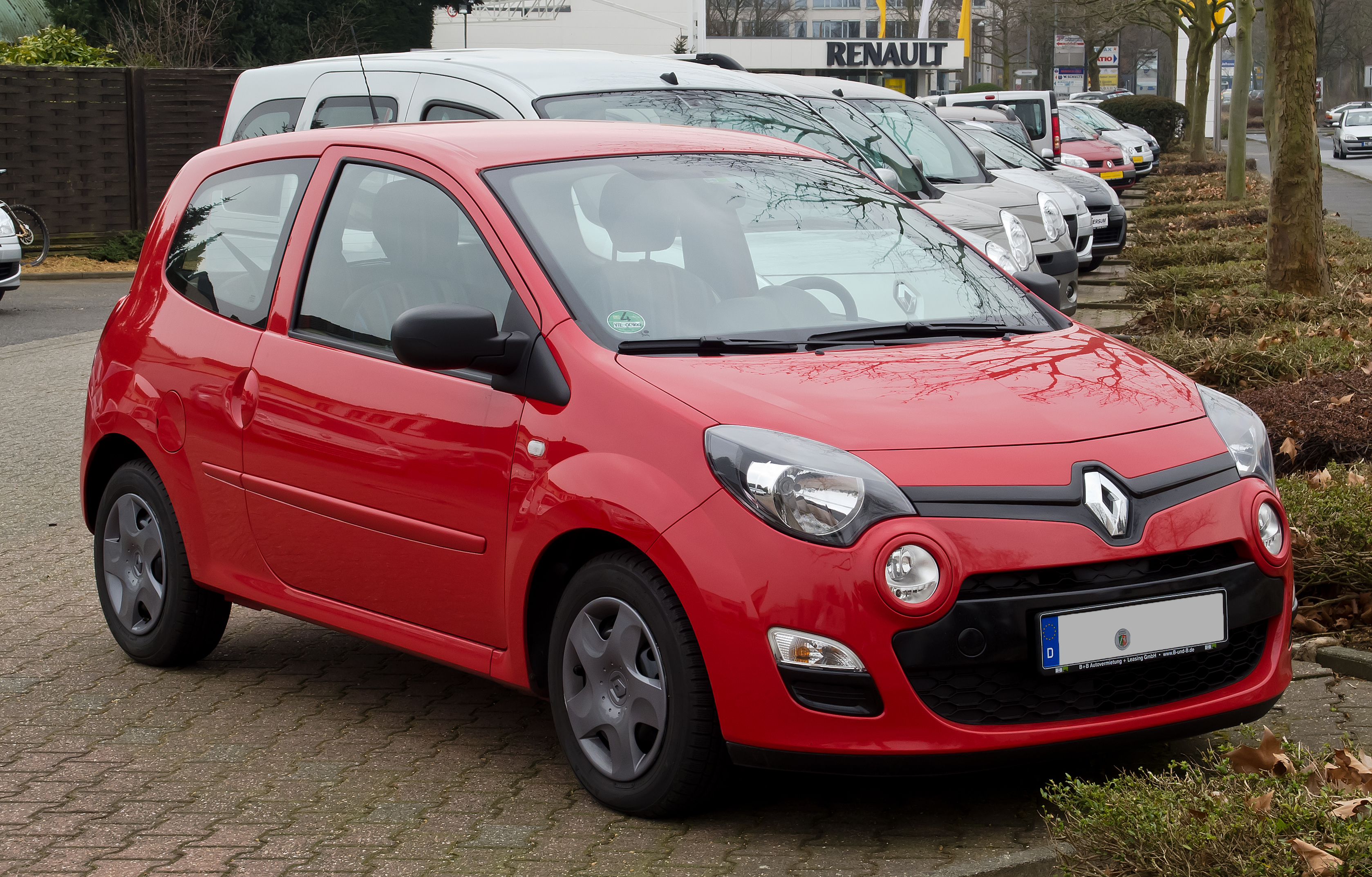 Renault Twingo (II, Facelift)